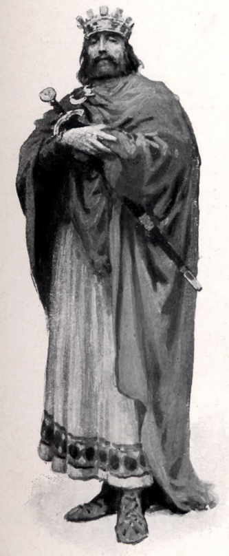 W. H. Margetson's illustration for Legends of King Arthur and His Knights by Janet MacDonald Clark.